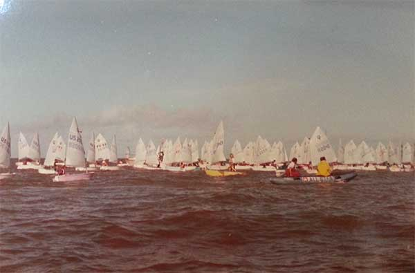 Rene Alvarez training their students Optimist